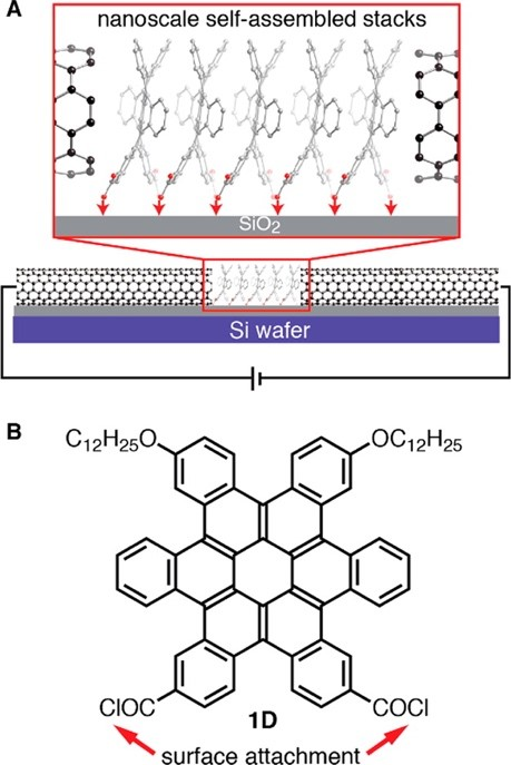 WaseemFig5